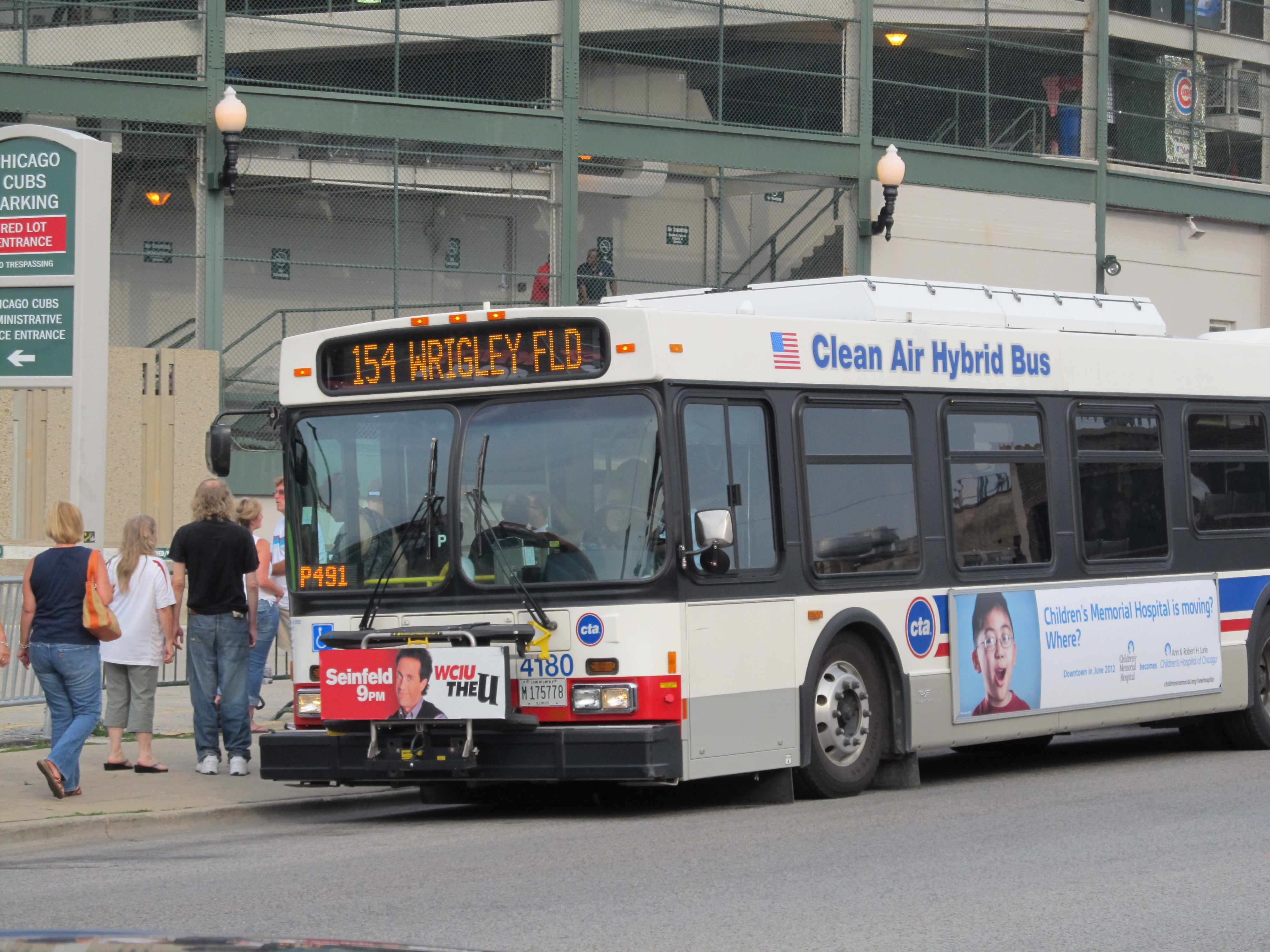 A New Flyer DE60LF operated by the CTA stopped at Wrigley Field